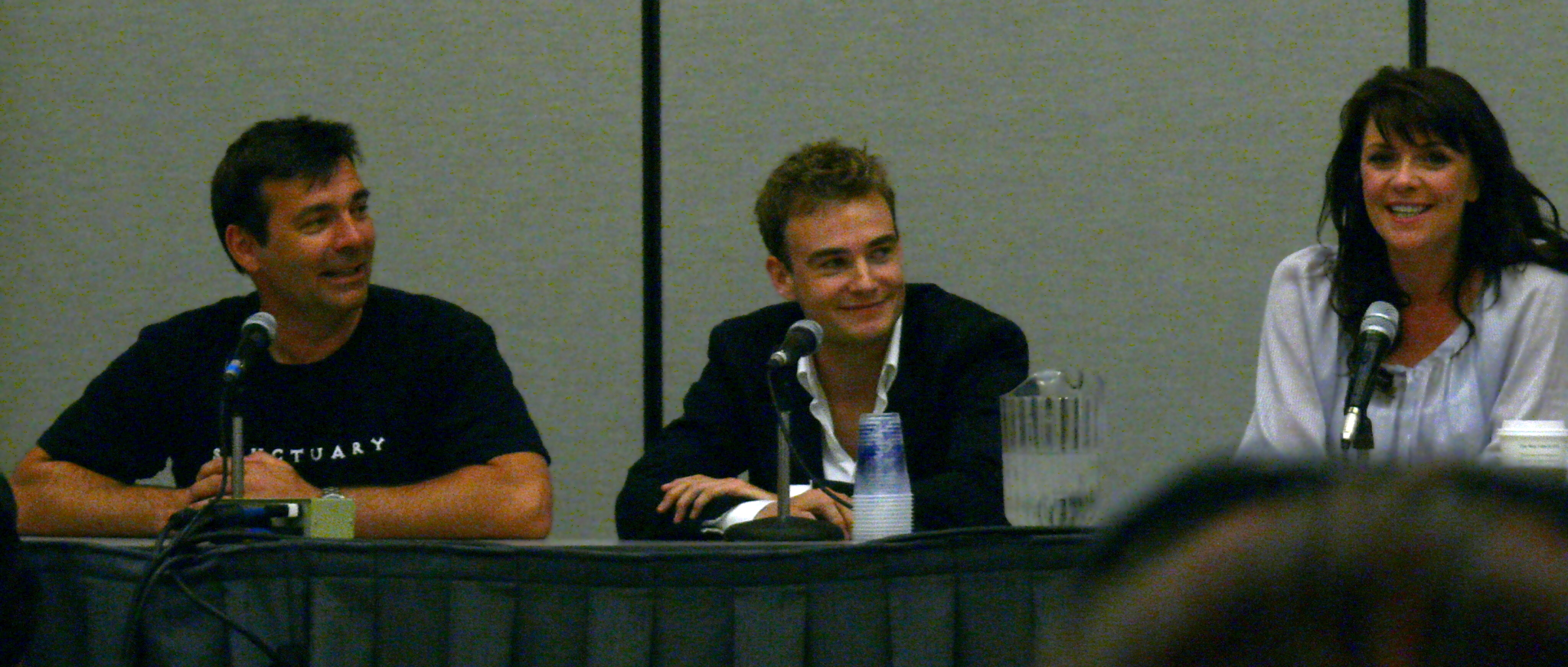 From left to right: Martin Wood, Robin Dunne, Amanda Tapping. Sanctuary is a new show coming to SciFi in October. 2009/01/20: I, Alisa Ward, the copyright holder, license this photograph under the Commons Creative Commons Attribution Share Alike License. I hereby grant permission to share and make derivative works of this photograph under the conditions that you attribute it, and that you distribute the resulting work only under the same or similar license to this one.